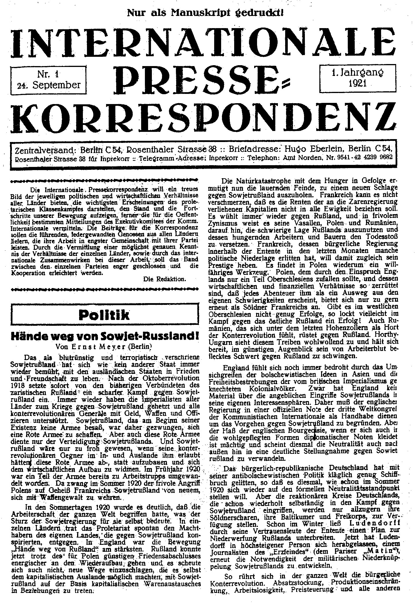 Title page of the first Inprekorr newspaper